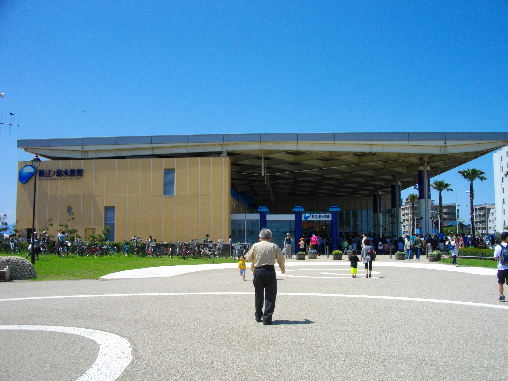 New Enoshima Aquarium